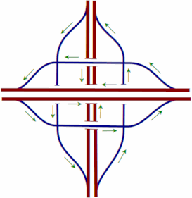 Diagram of a simple volleyball interchange, not to scale. Made using Paint Shop Pro.